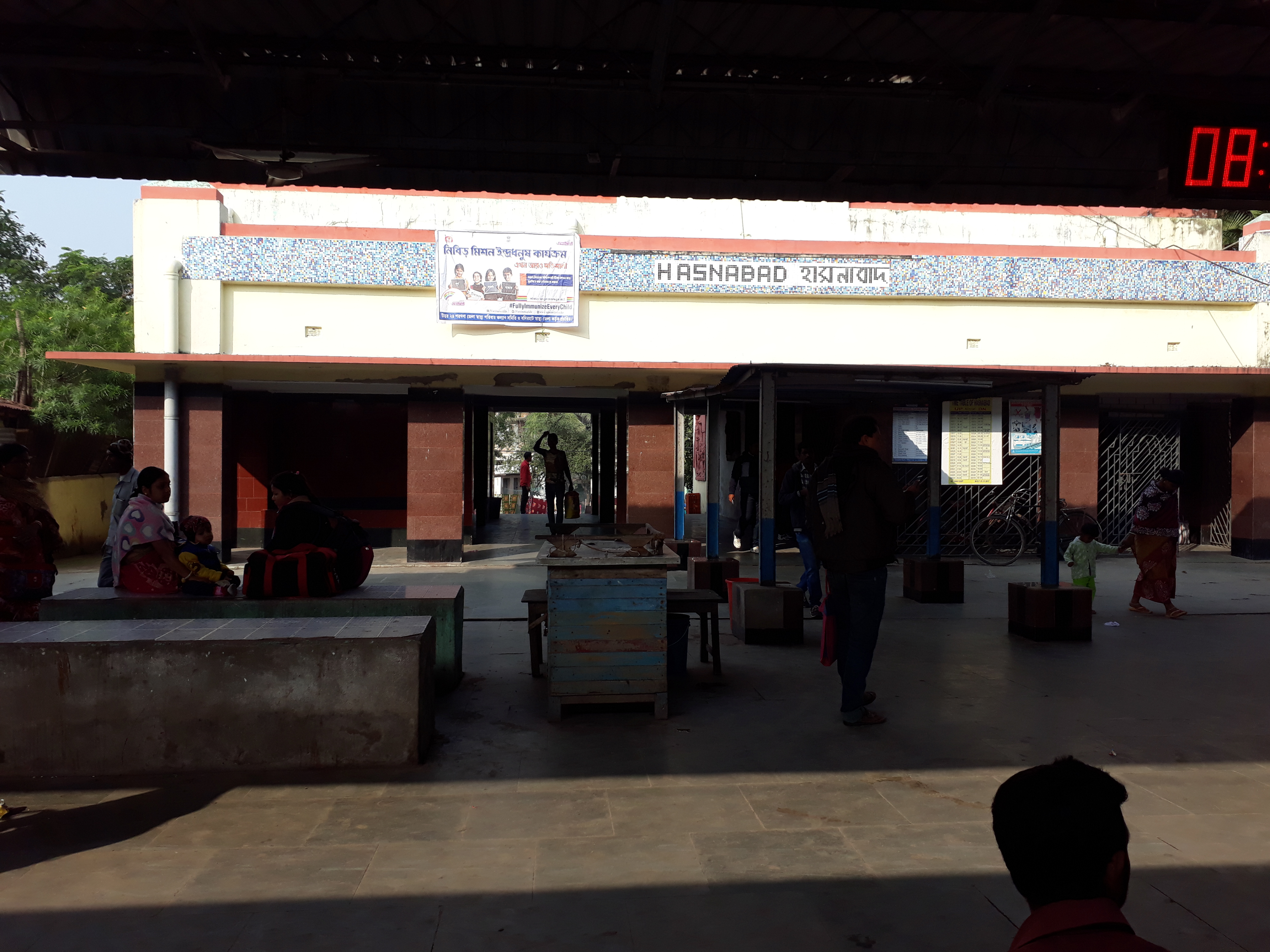 Hasanabad Railway station in Barasat Hasanabad line, North 24 Pgns. West Bengal